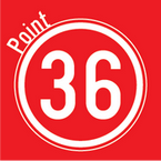 Diagram of road signs of Luxembourg